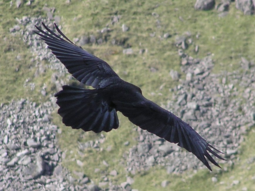 A carrion crow flying in the lake district